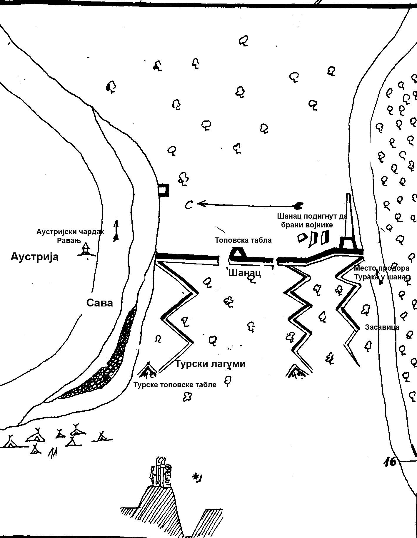 Map of battle of Ravanj 1813